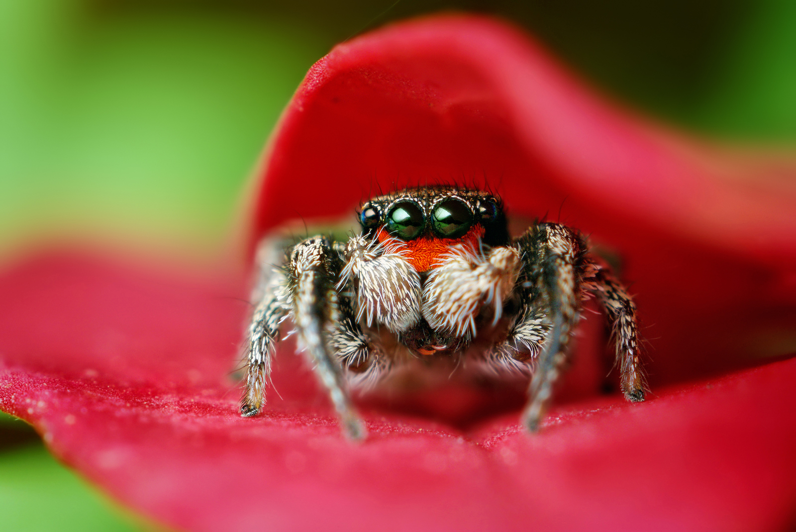 Adult male Jumping Spider Hiding in Leaves - (Habronattus coecatus) What a beautiful day today was! I set out to look for bugs around 4 and by about 6 PM I had found 4 adult male Habronattus coecatus, 2 female H. coecatus (maturity unknown), one Phidippus audax female, several young frogs, a fairly large moth in perfect shape, several beetles, countless young Rabidosa rabida wolf spiders, 2 adult male Blue Birds, and a little bright yellow bird with a black head that I don't know the name of... any suggestions? The above photo was taken with the 50mm reversed to the bellows and is full frame. Pretty low magnifcation for me, but I just couldn't bring myself to crop it (the eyes are just slightly out of focus anyways). Images like this never get as many views but that doesn't really matter.